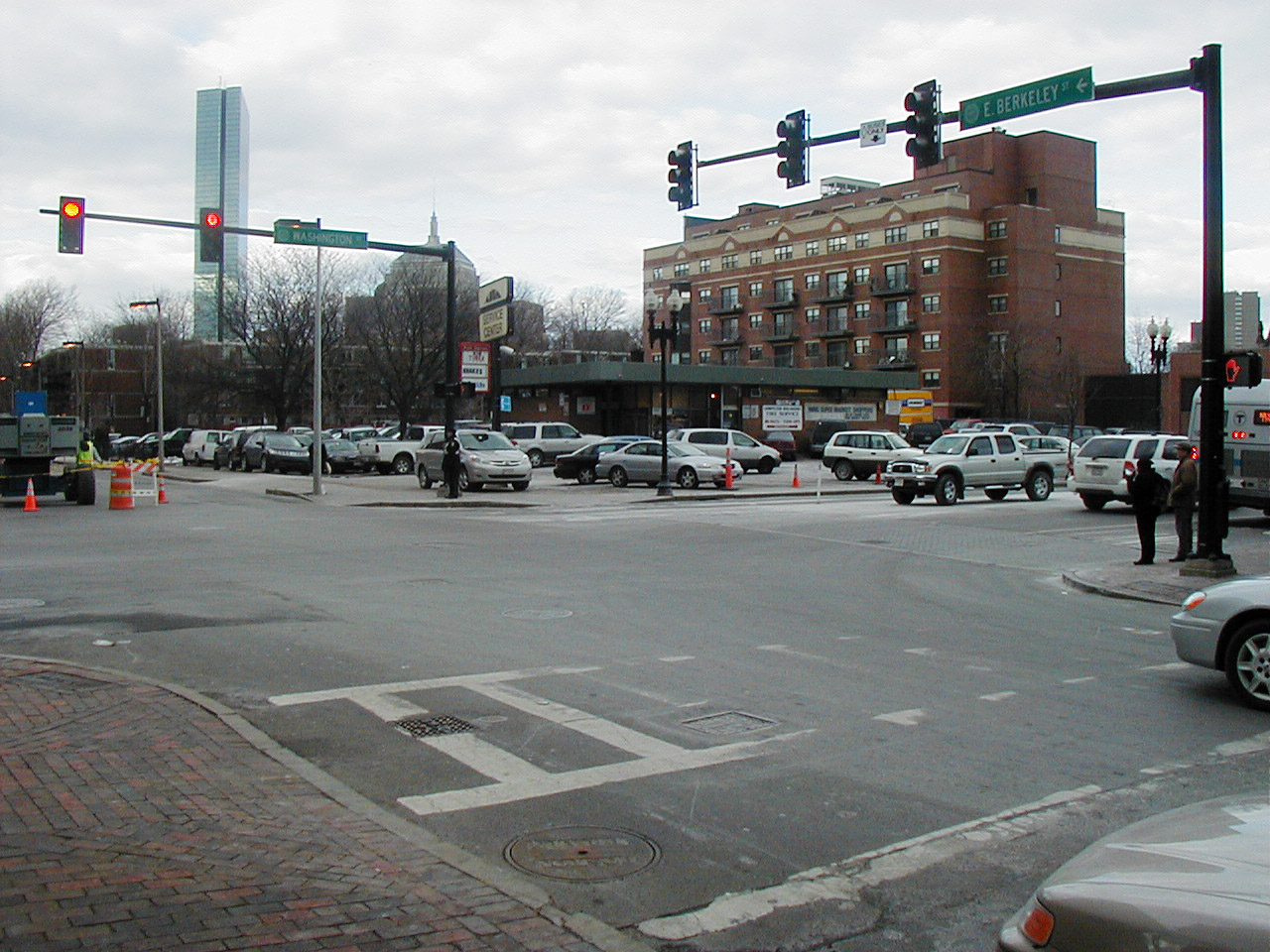 This is the site of the Town Gate and fortifications on Boston Neck. This view is from East Berkeley Street. Washington Street is still a main road into Boston (out of the photo on the right). This section of Washington Street was formerly called Orange Street in colonial times. The old Dover Street elevated station once stood at this location. Photo taken January, 2007.